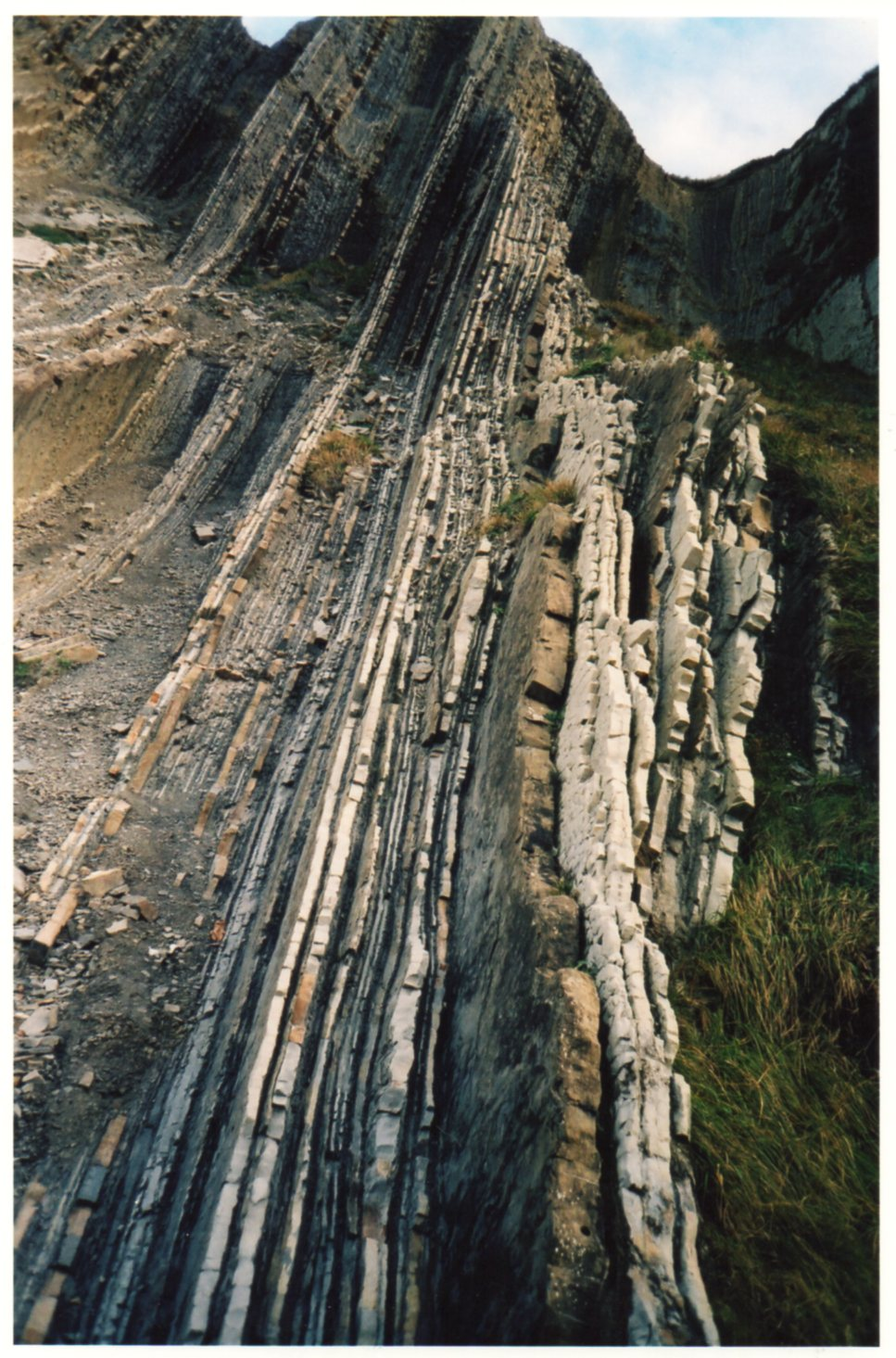 Flysch with K-T transition, Algorri, Zumaia, Spain